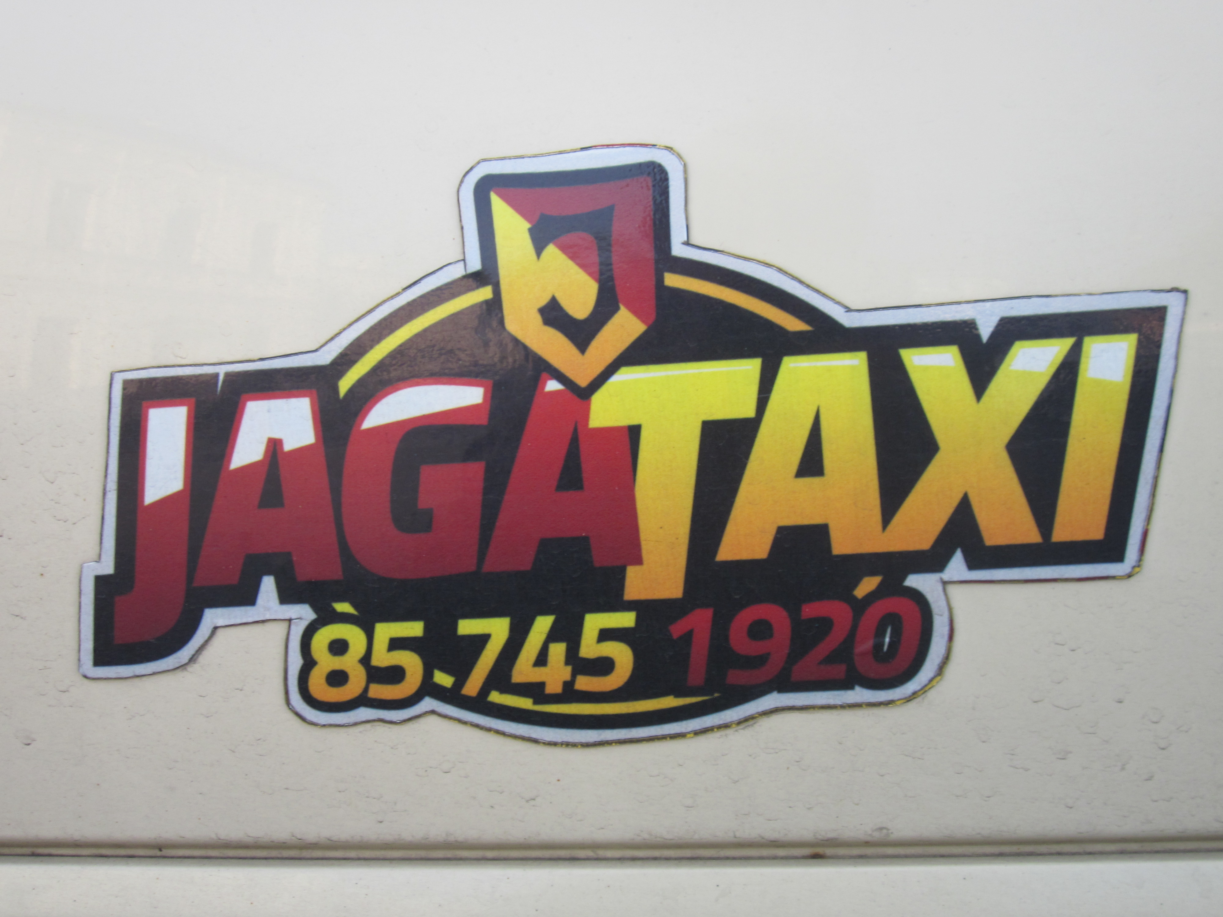 Logos Jaga Taxi shared Jagiellonia Białystok's